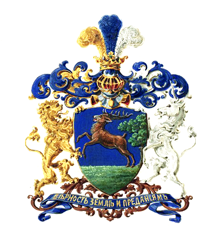 Coat of arms of the Anichkov (in former times Onichkov) family.